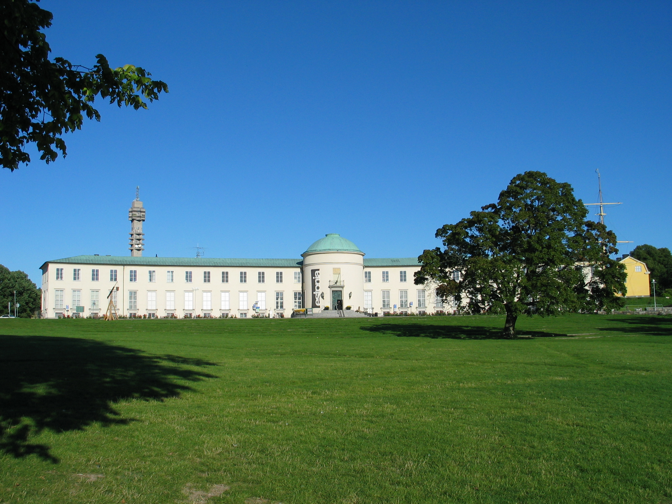 The maritime museum in Stockholm, Sweden